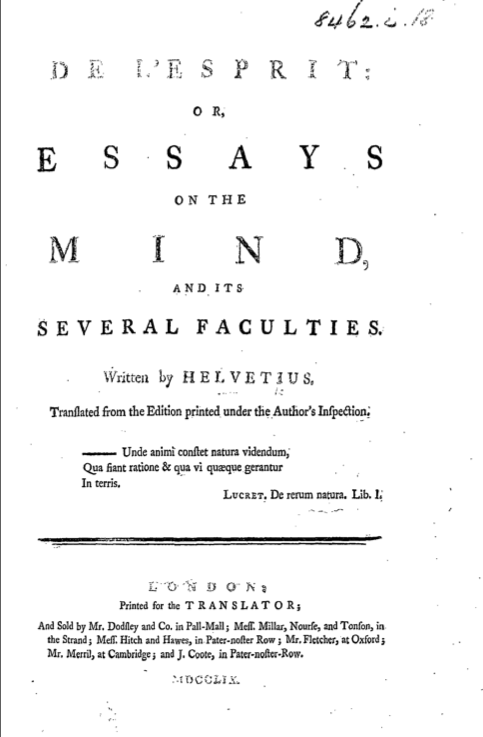 De l'Esprit by Claude Adrien Helvétius, English translation